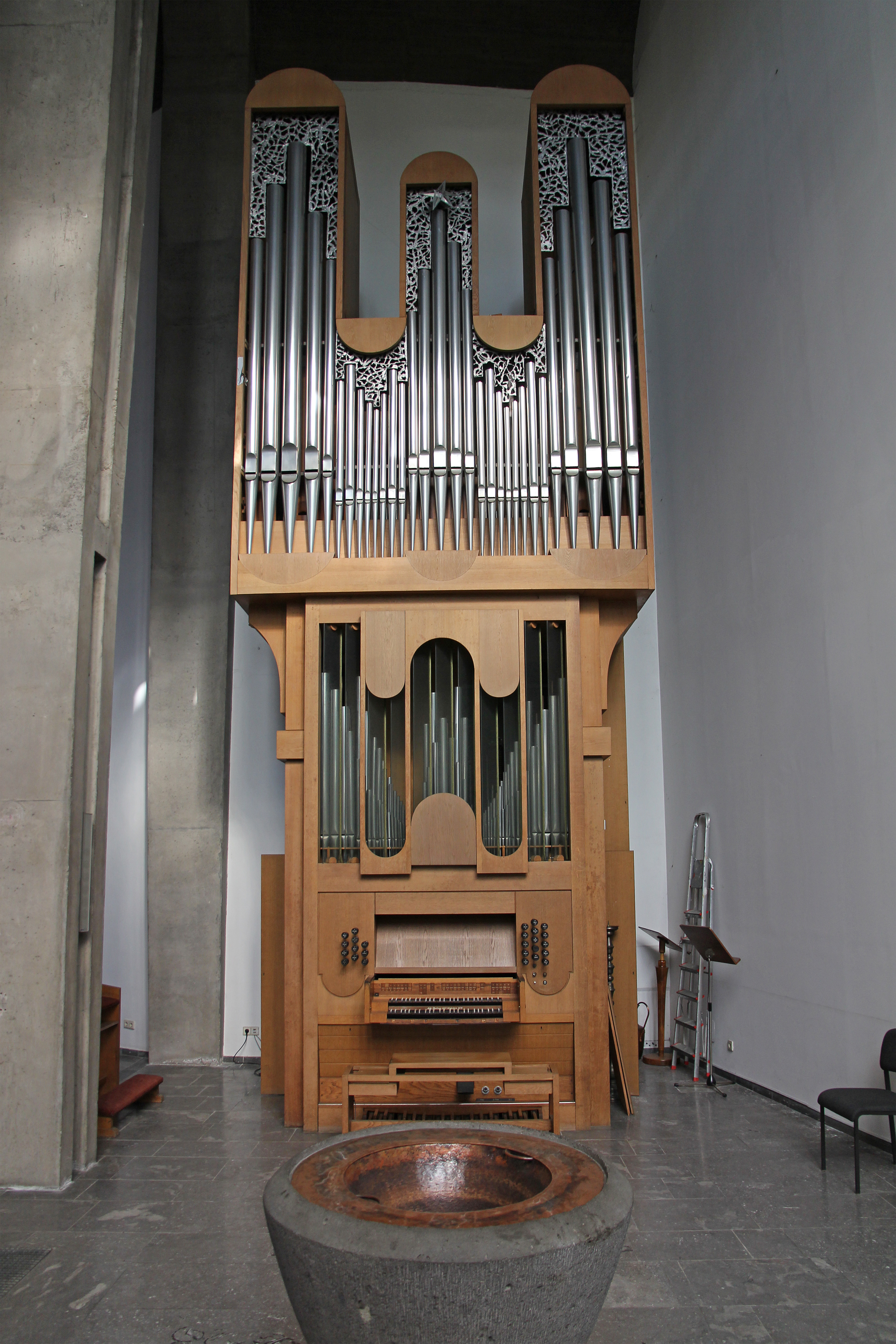 St. Mary’s Assumption church in Koblenz